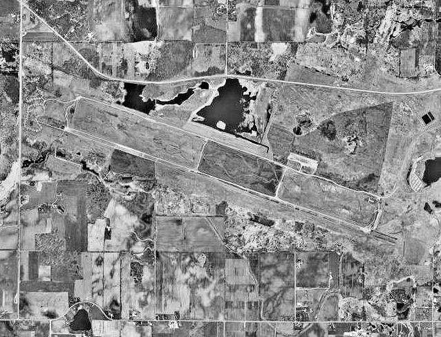 USGS digital orthophoto showing remains of Richard I. Bong Air Force Base in Wisconsin